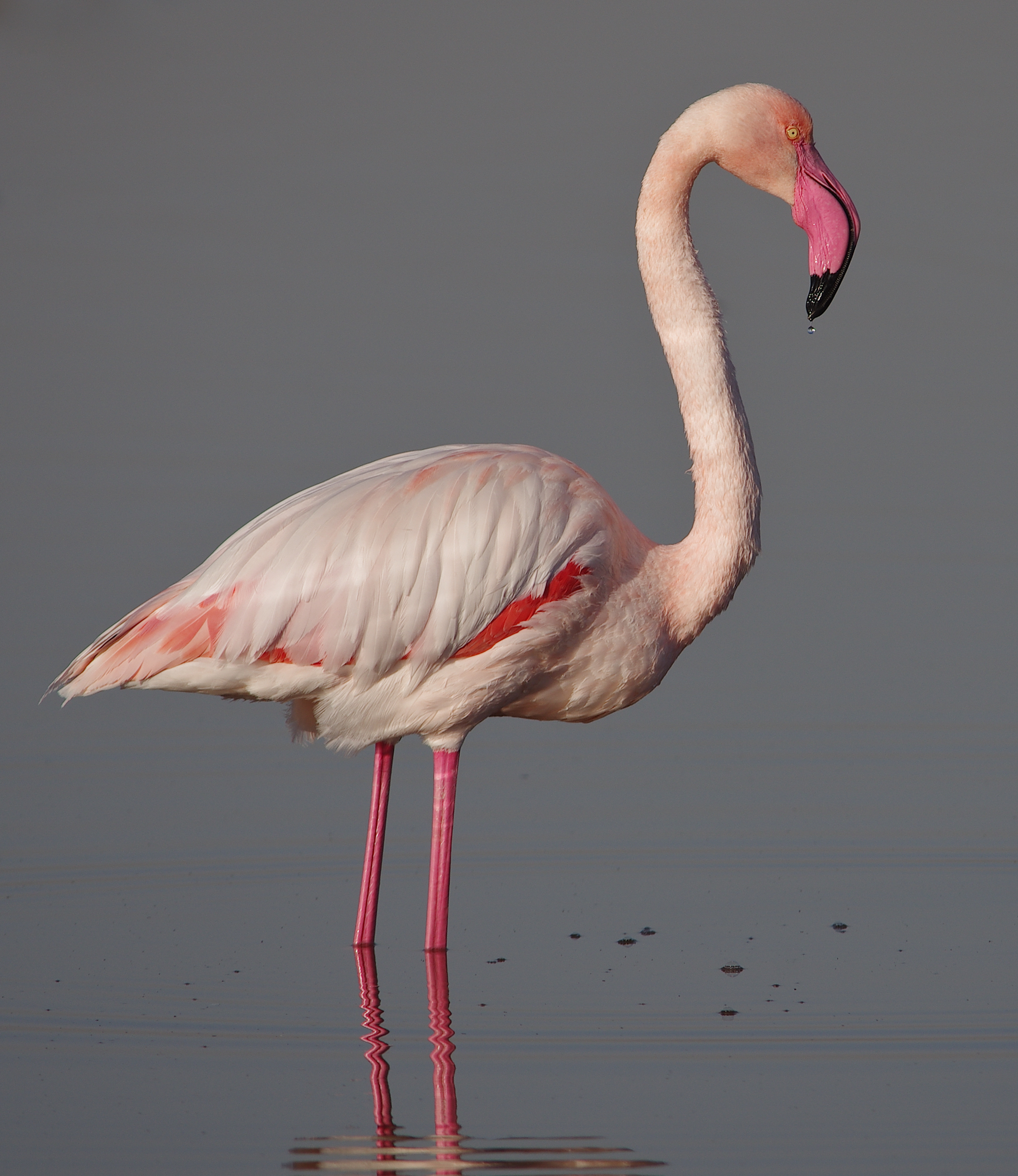 Greater flamingo near Thyna (Tunisia)